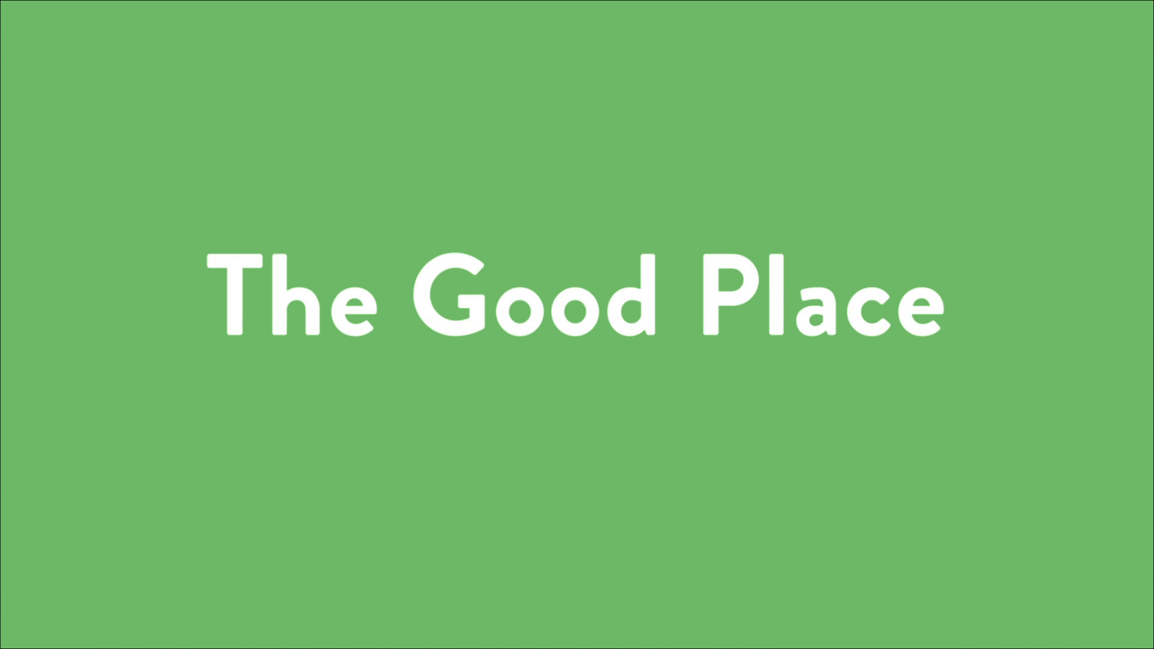 Title card of the TV series The Good Place